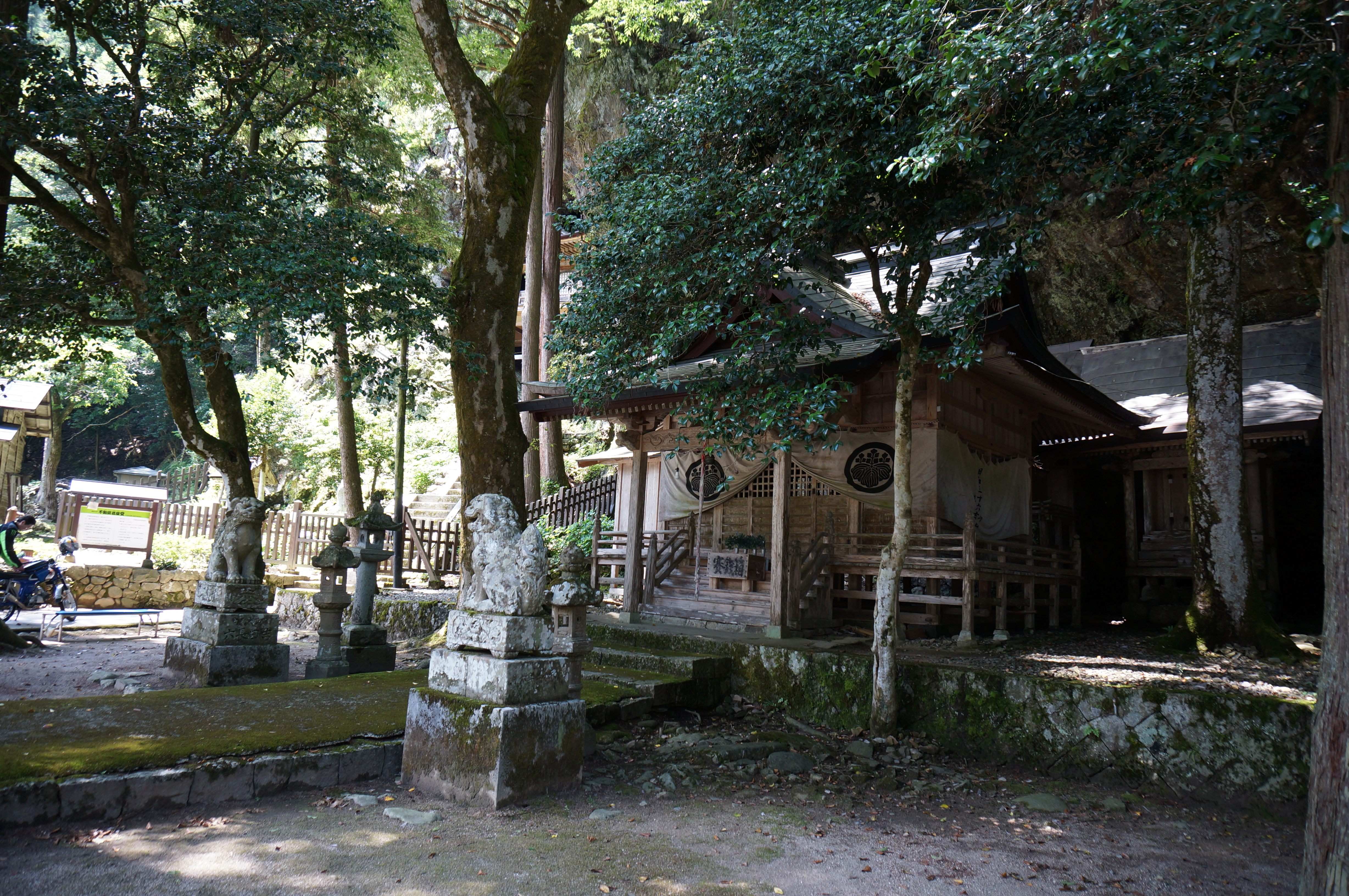 Iwaya-jinja shrine and Fudō-in Iwaya-dō